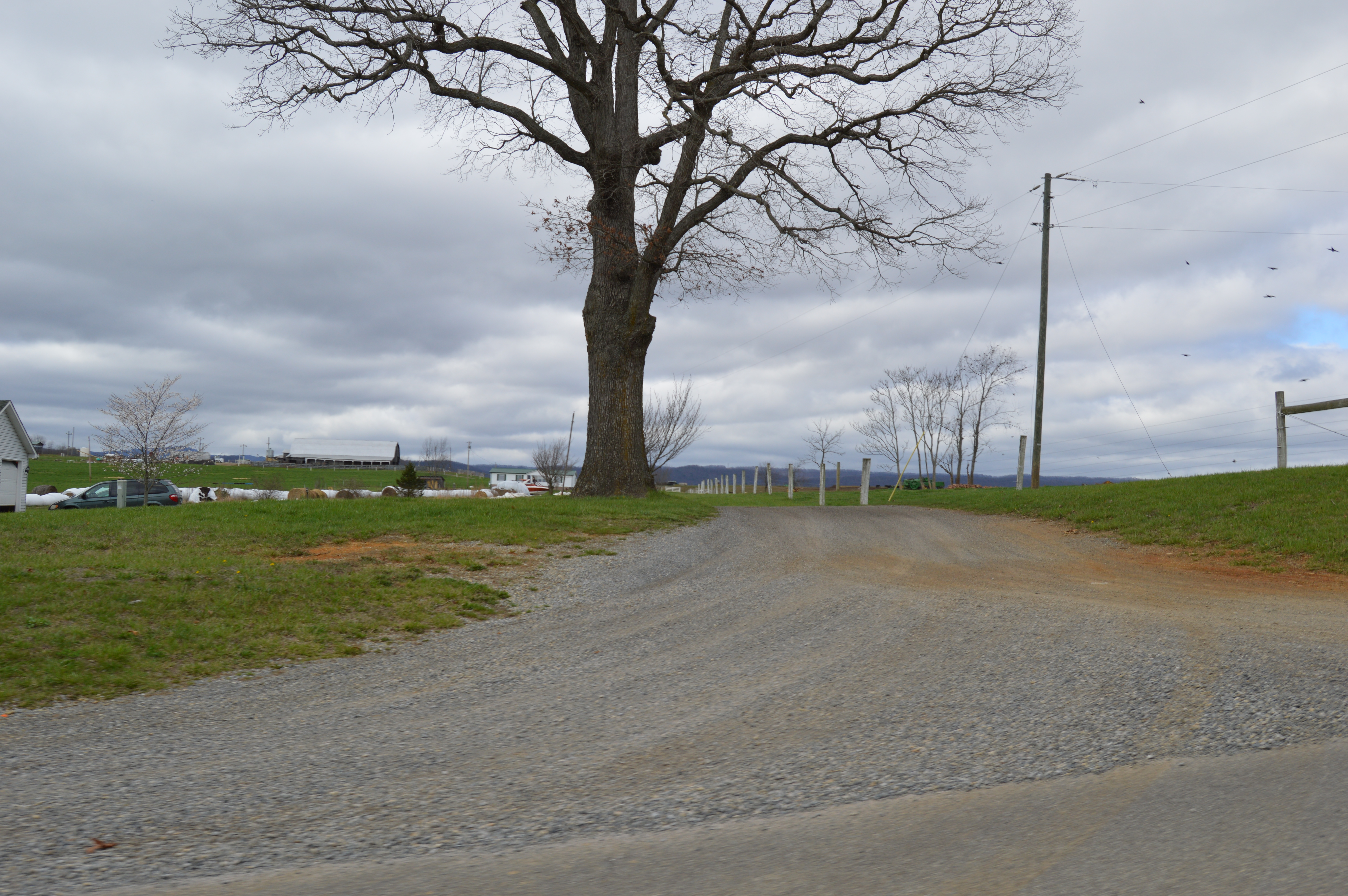 Driveway to the Spring Dale farmstead, located off Ruebush Road northeast of Dublin in Pulaski County, Virginia, United States. The farmstead is listed on the National Register of Historic Places.